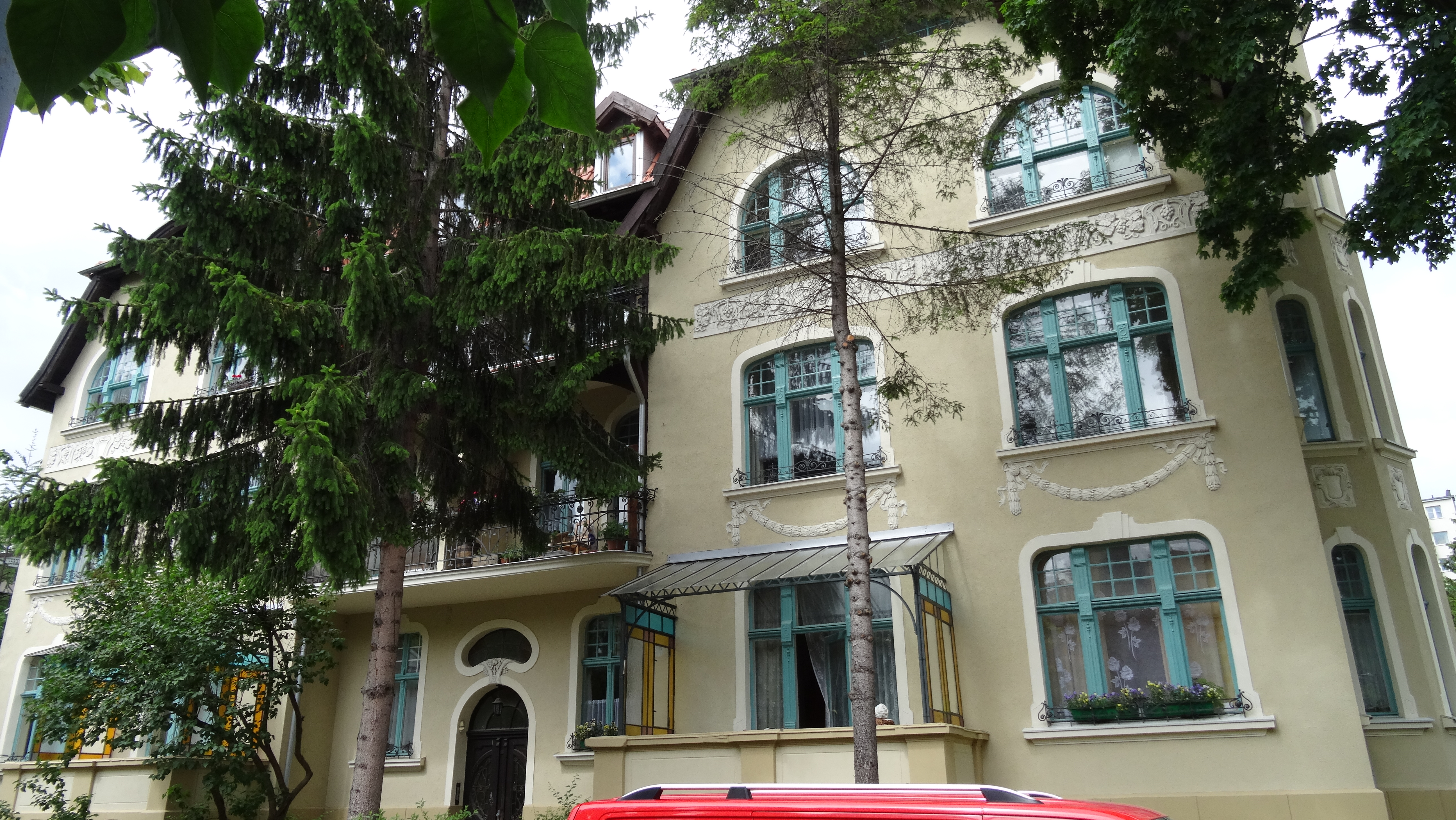 Poland, Sopot, tenement house (1904) Lipowa 9 Str. designed by August Schmidtke